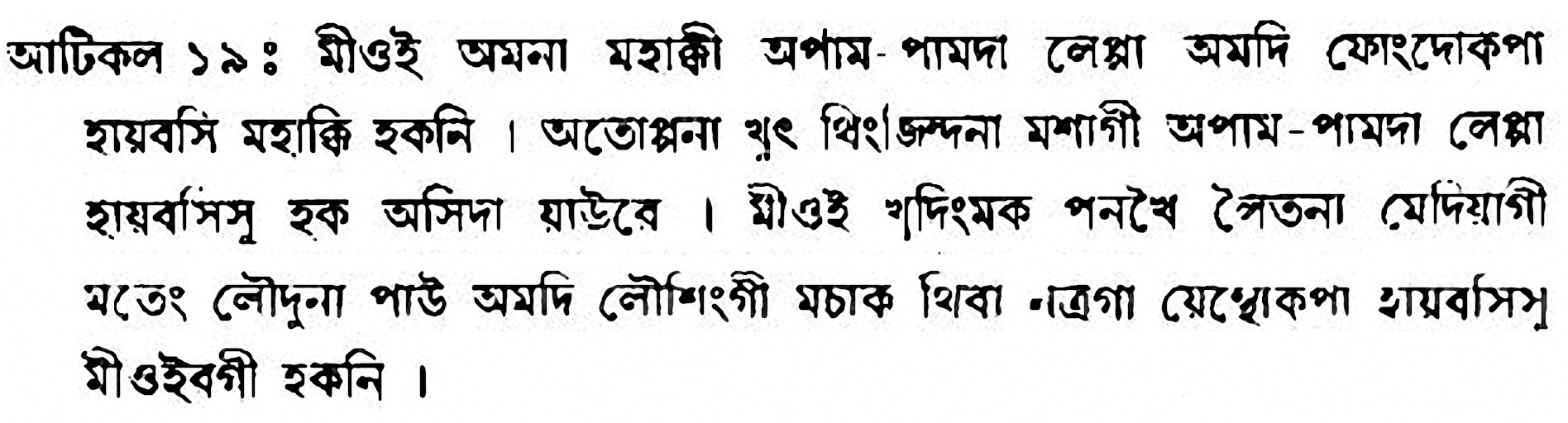 Art. 19 in the Universal Declaration of Human Rights (UDHR) in Bishnupriya Manipuri language. Translation: “Everyone has the right to freedom of opinion and expression; this right includes freedom to hold opinions without interference and to seek, receive and impart information and ideas through any media and regardless of frontiers.”